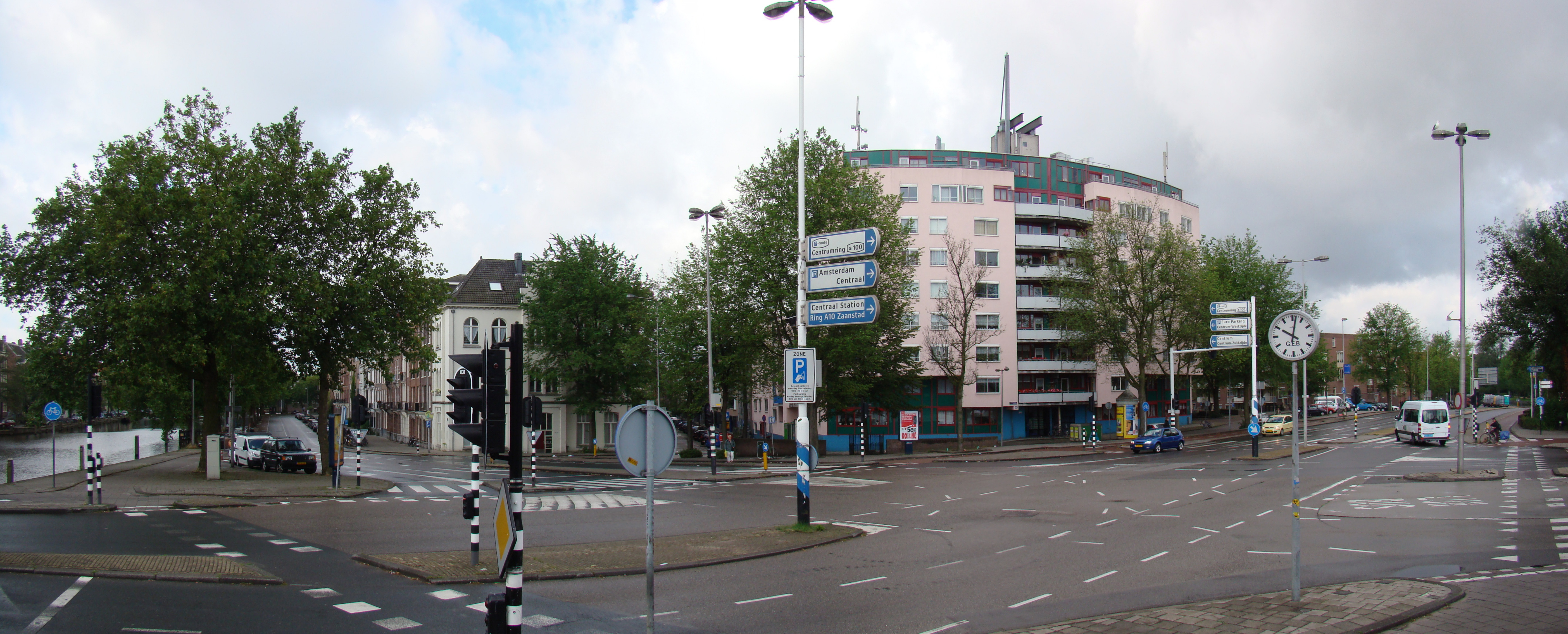 Naussausquare at Amsterdam, Netherlands, sculpture Light sculpture van Noel Harding is in repair.